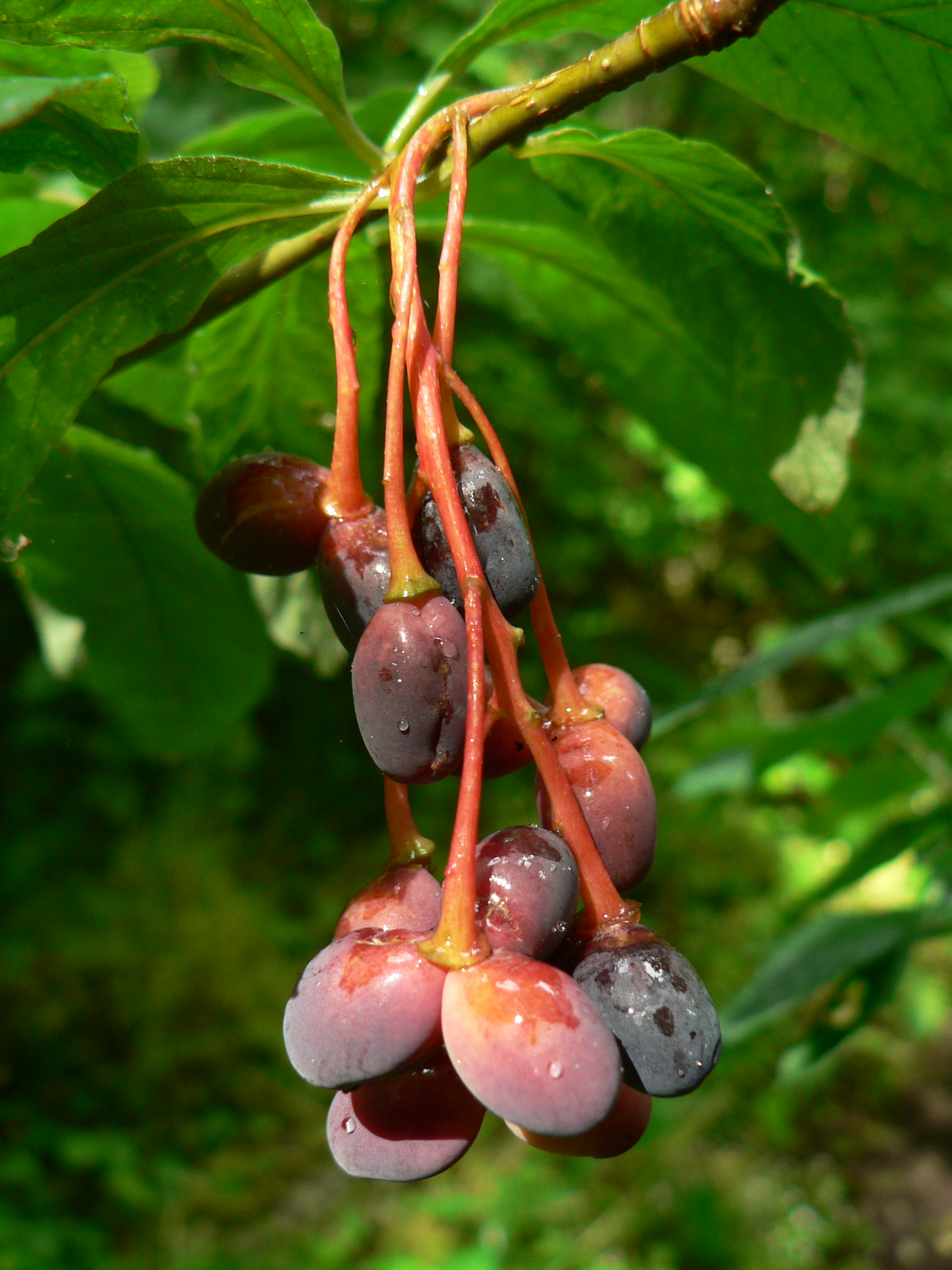 Indian Plum